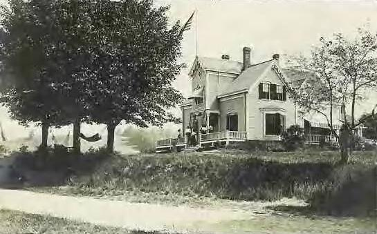 A Victorian building in 1910, Newton, NH; from an old postcard.